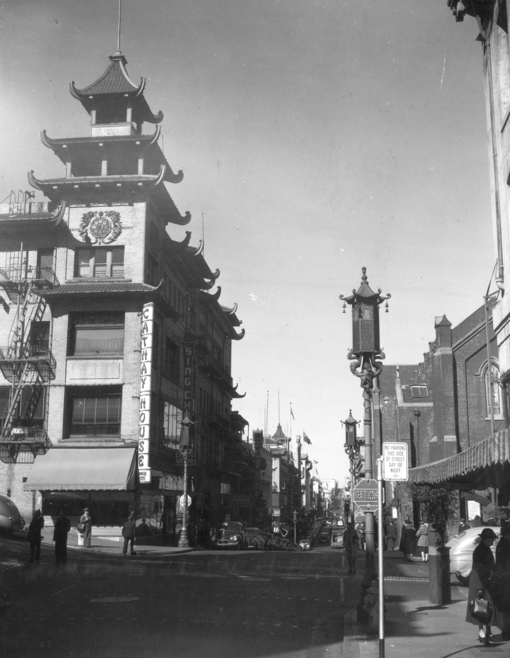 Main Streets of America. San Francisco Chinatown in 1945; intersection of Grant Avenue and California Street. From the National Archives 111-SC box 692 329509.